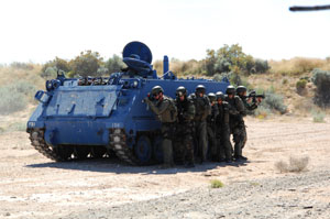 Some FBI SWAT officers in a vehicle training exercise.